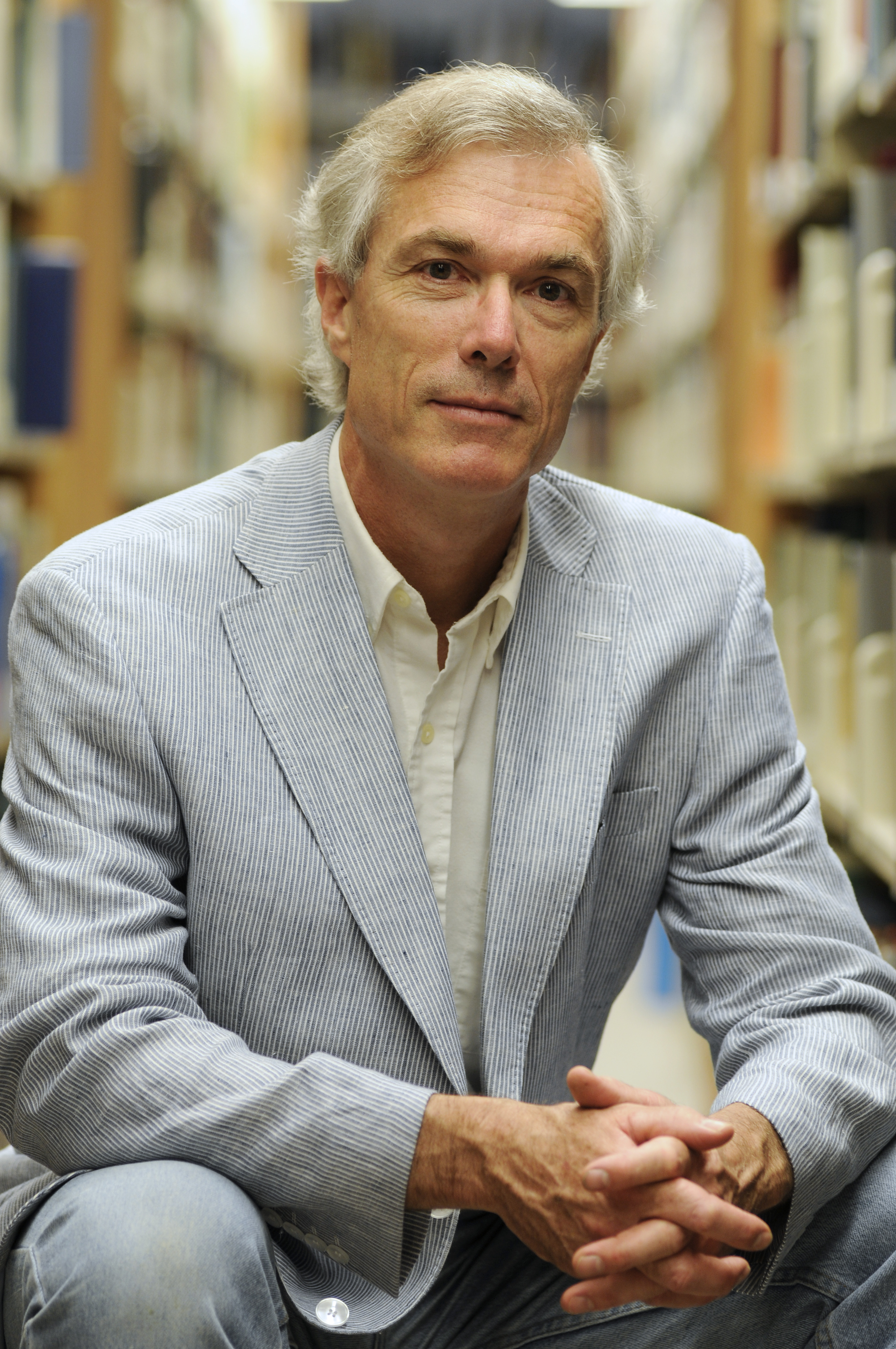 Timothy Brook, professor of history at the University of British Columbia in Vancouver, B.C.